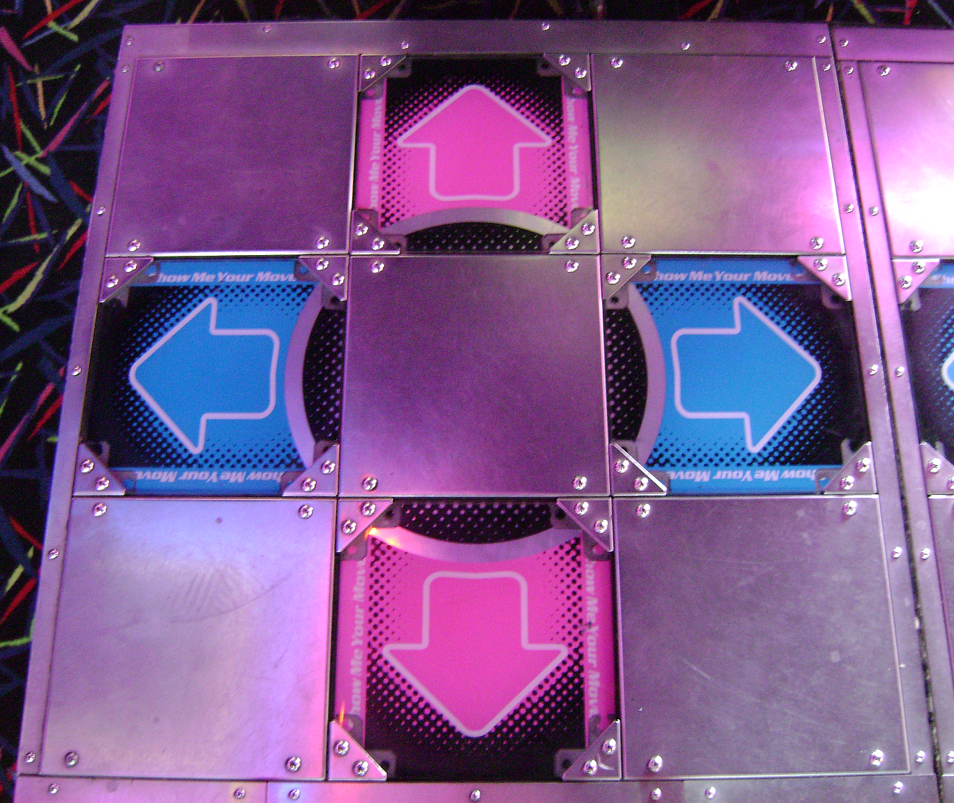 The left dance platform of a Dance Dance Revolution Extreme arcade machine.